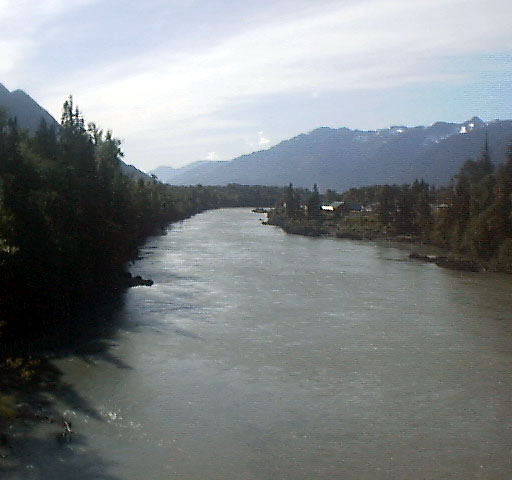 Nass River from Gitwinksihlkw Bridge. Keith Freeman photograph